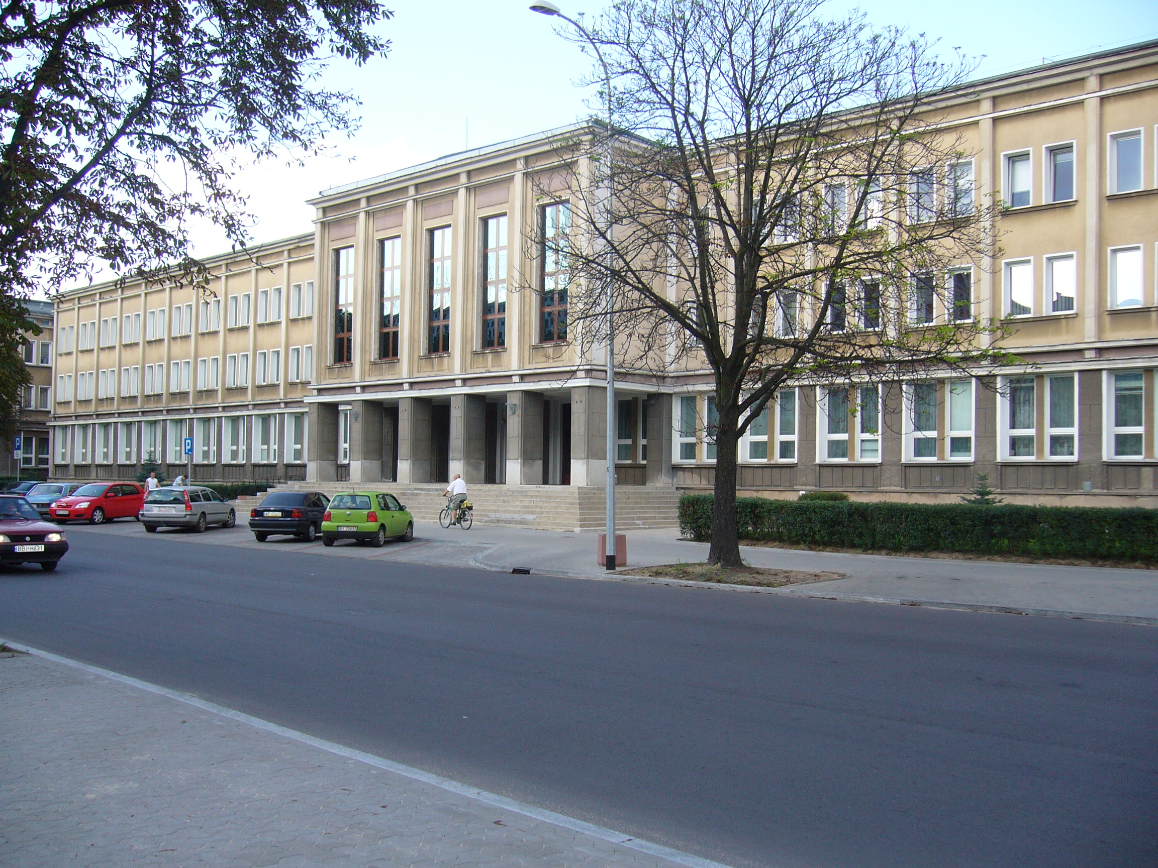 Building of District Court in Białystok, Marie Skłodowska-Curie 1 street.